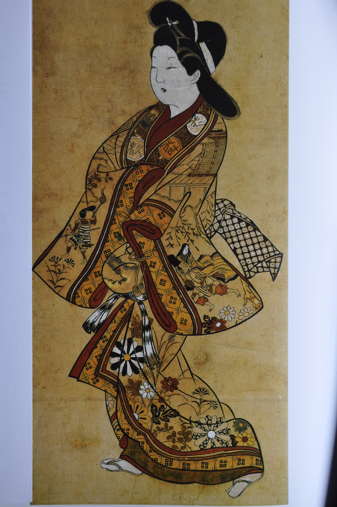 Woodcut print by Sugimura Jihei (active between 1681 and 1698).